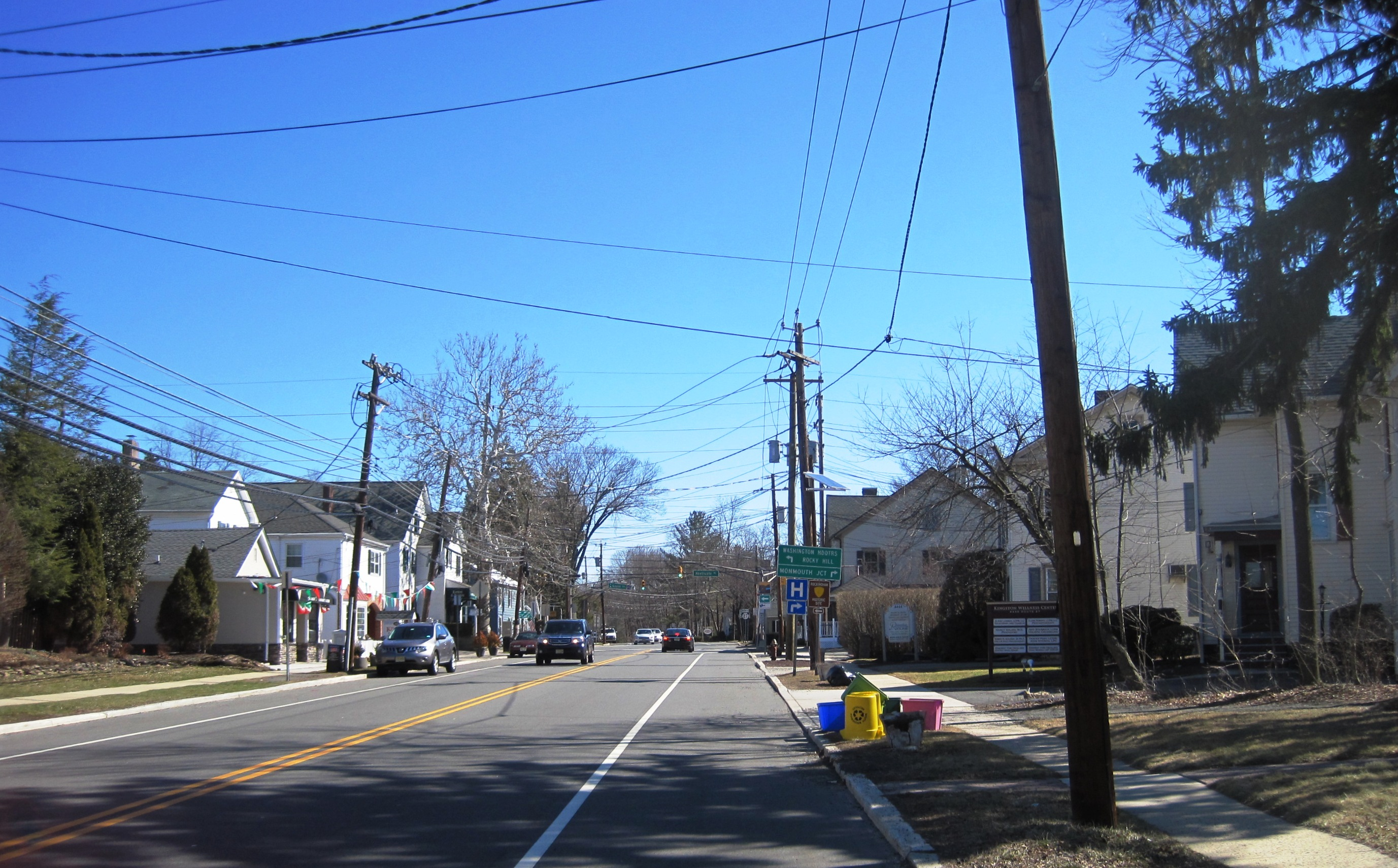 Photo of Kingston, New Jersey, an unincorporated community in Franklin Township, Somerset County and South Brunswick Township, Middlesex County. The photo was taken on northbound Route 27 approaching Laurel Avenue (CR 603) and Heathcote Avenue. Franklin Township is on the left and South Brunswick is on the right.